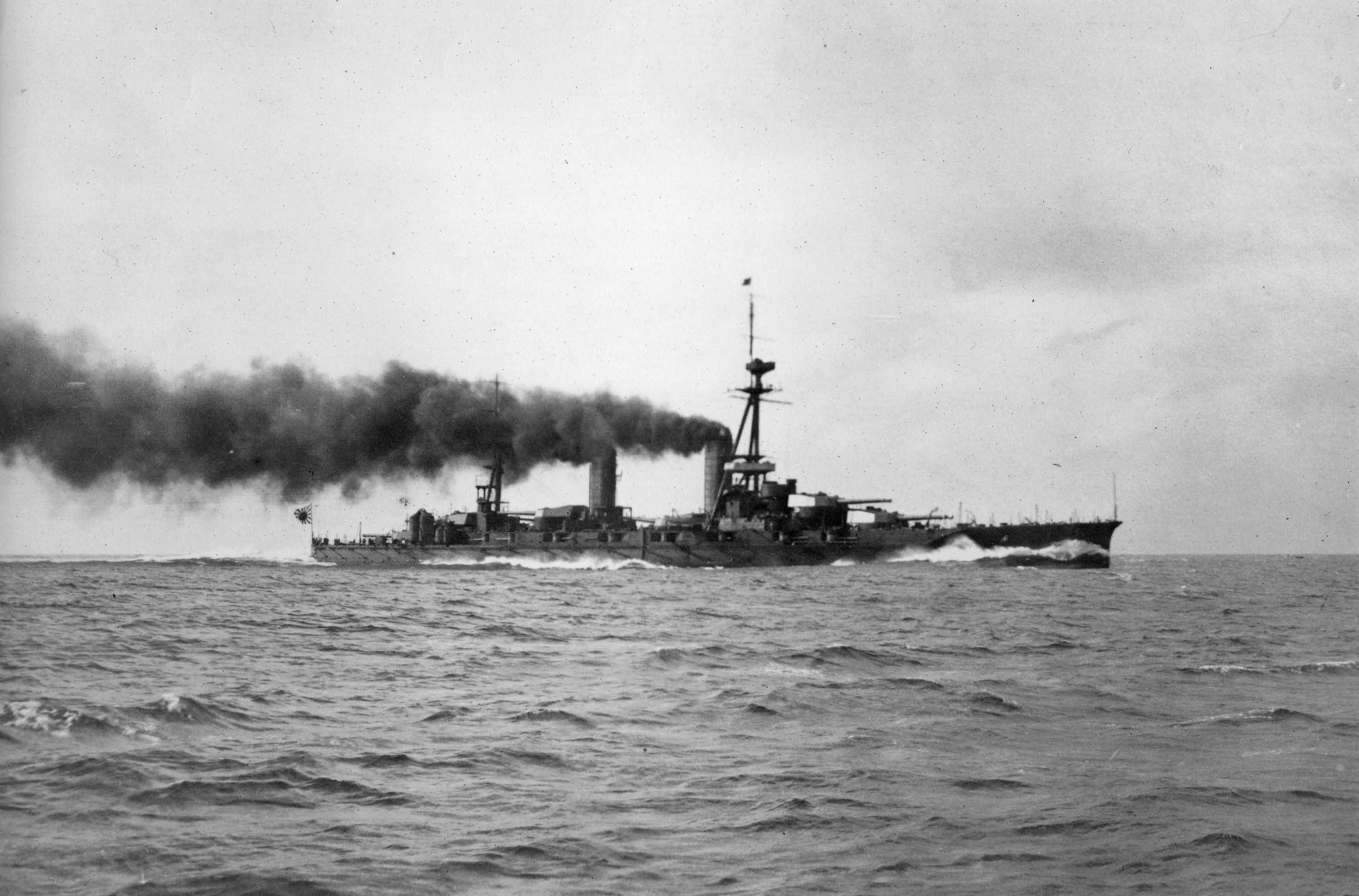 Imperial Japanese Navy battleship Yamashiro undergoes initial trials off Tateyama, Japan.